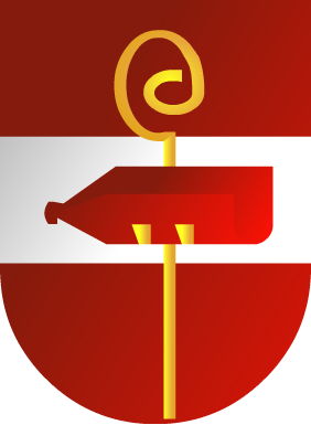 Coat of Arms of Breitenlee, Vienna